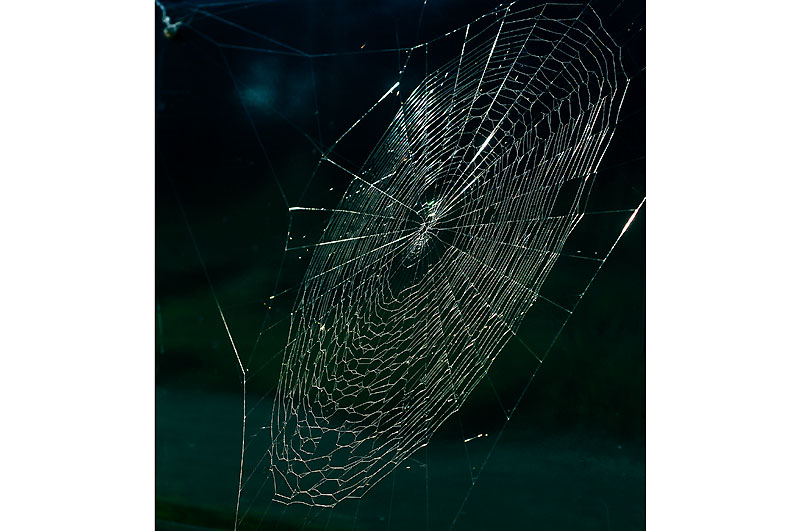 Spydernet built of a Kross spyder.